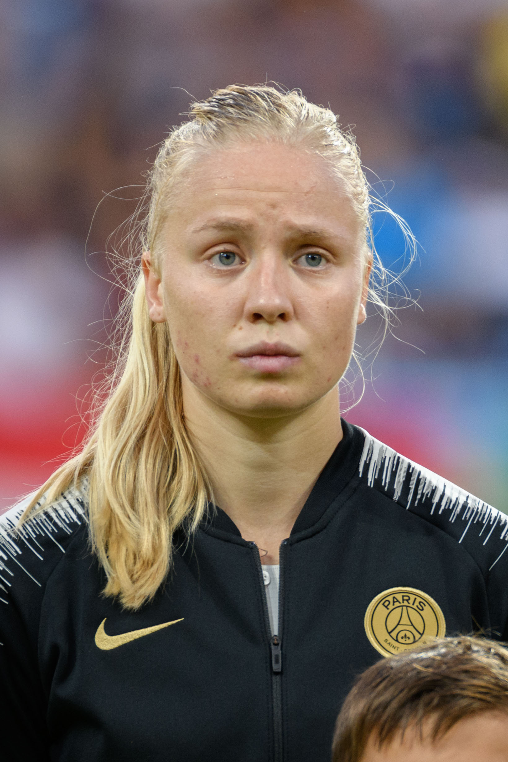 UEFA Women's Champions League 2019 Final Round of 32 SKN St.Poelten vs. Paris Saint Germain 2018/09/12. Picture shows Paulina Dudek of PSG.